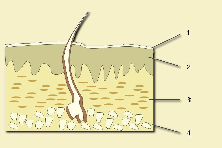 Skin layers. 1: Epithelium (part of the epidermis), 2: cellular epidermis (stratum granulosum, stratum spinosum, stratum basale), 3: Dermis, 4: Subcutaneous tissue, subcutis